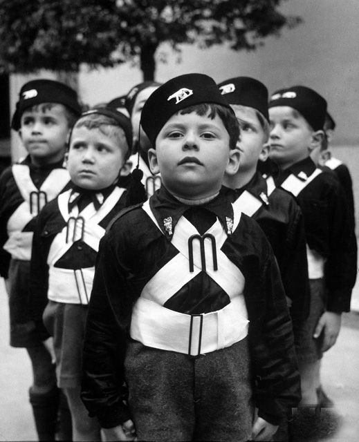 Children in Ballilla uniform- Italian Fascist Children's Organisation